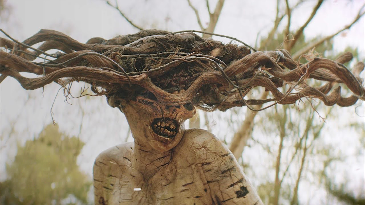 The character the Birch, from the short film by Crypt TV of the same name.